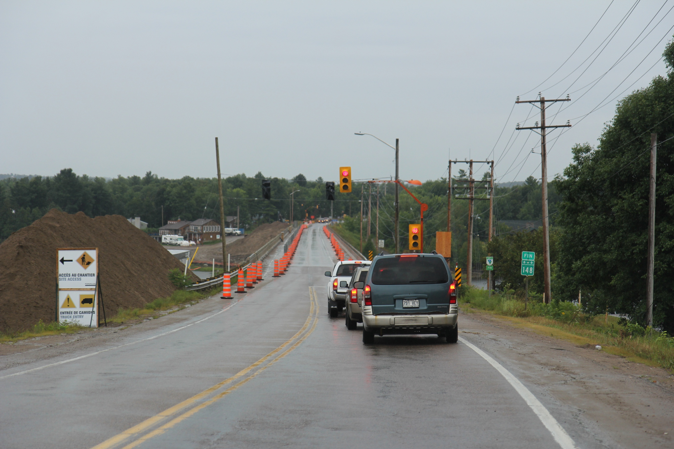 Quebec Autoroute 148 west terminus under construction on Allumette Island